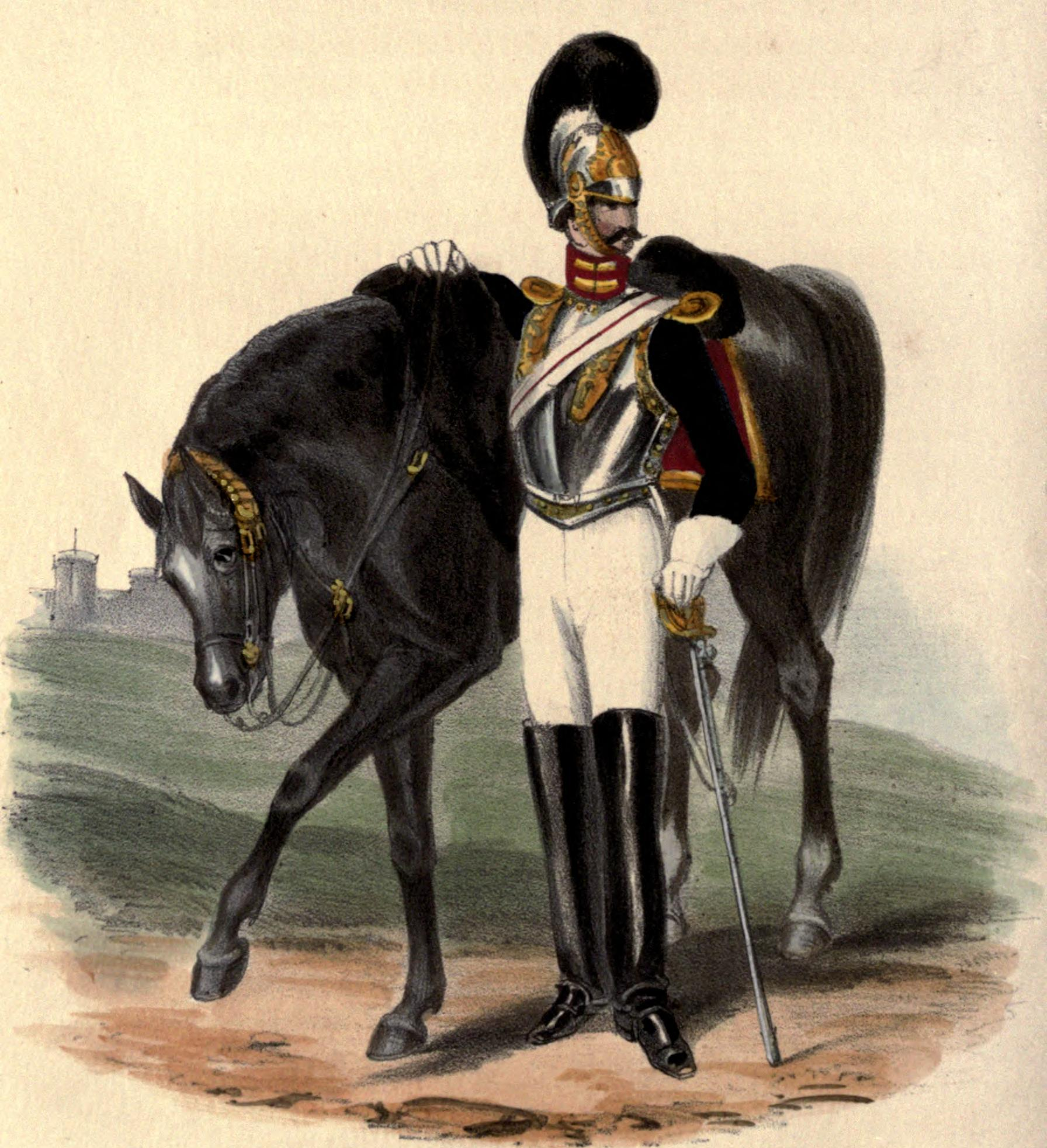 Royal Horse Guards uniform in 1828.